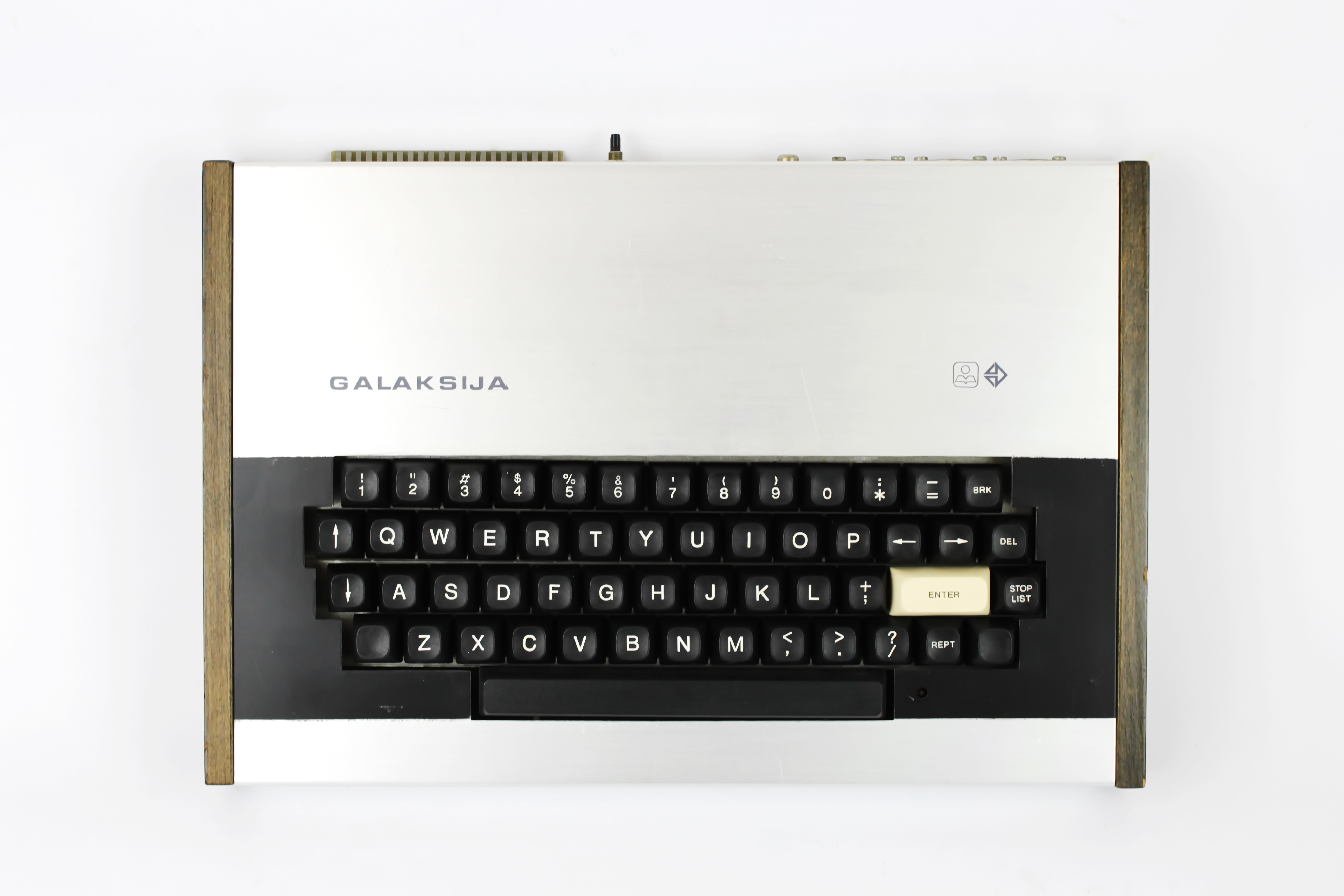 Desktop computer GALAKSIJA, designed by Gojko Varda in cooperation with company Elektronika inženjering in 1978